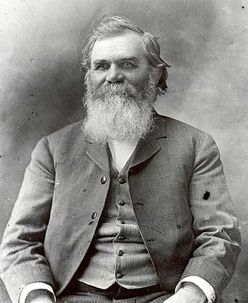 A portrait of Daniel David Palmer (1845–1913).